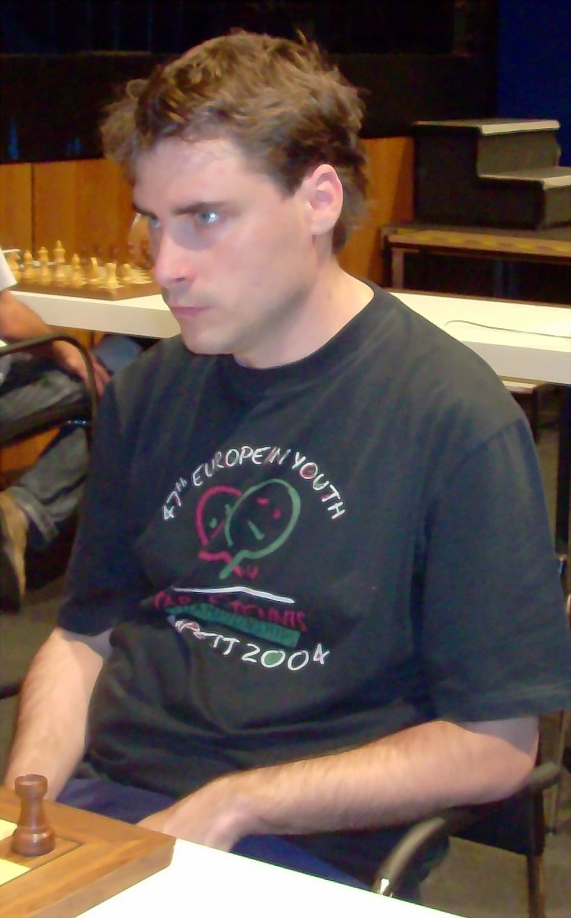 Robert Ruck, Hungarian chess grandmaster